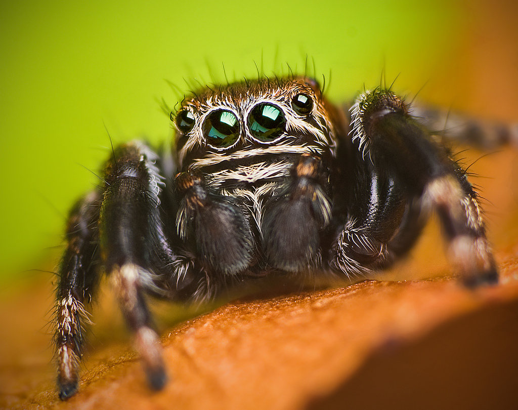 I captured this image last summer. This is one of the most frequent species in Lithuania. I took this photo with CanonEOS40D photocamera + extention tubes + CanonEF100mmMacroUSM lens + Kenko close up filter. Please have a view of full size... Thanks :)